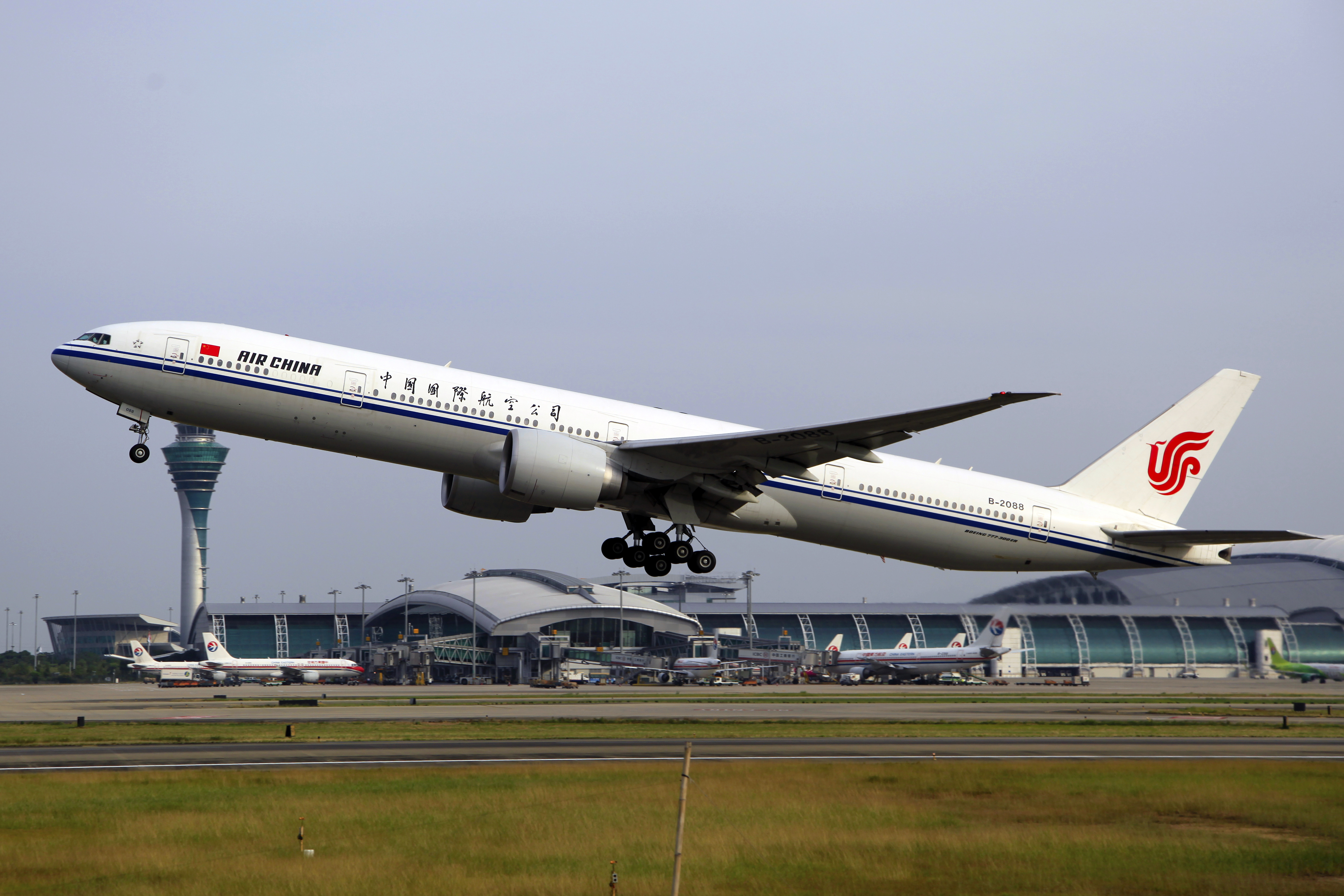 B-2088 | Air China | Boeing 777-39L(ER) | Guangzhou Baiyun International Airport [CAN]